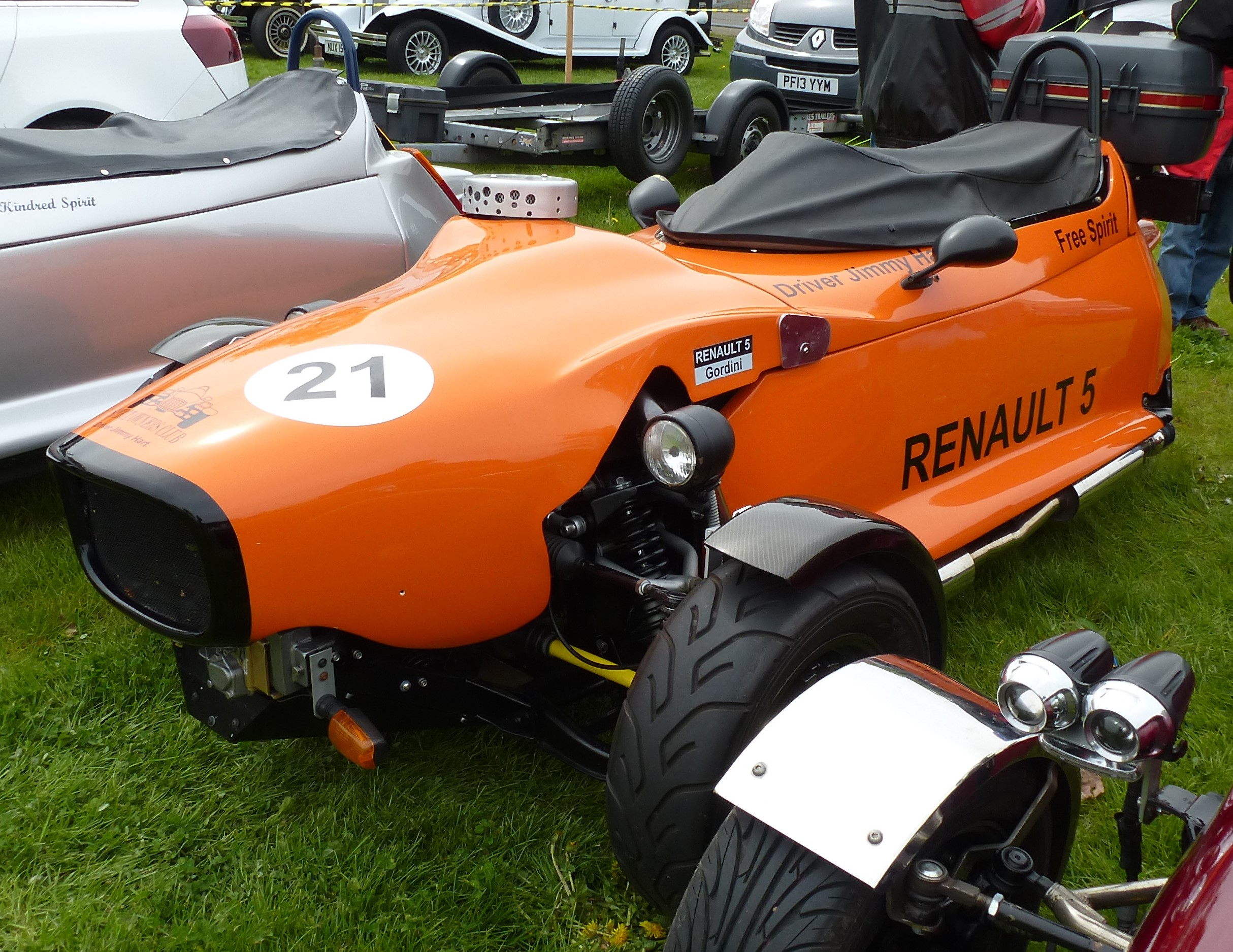 Hudson Free Spirit